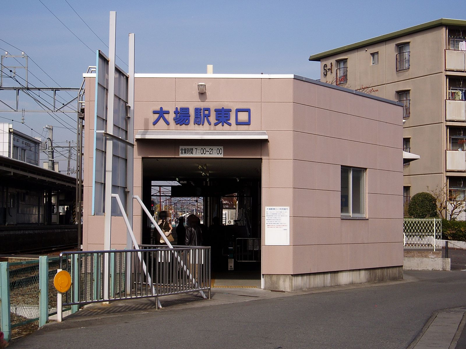 Isuhakone Railway Company, Daiba Sta.(East entrance) 2007.11.26 Photo by Cassiopeia_sweet.